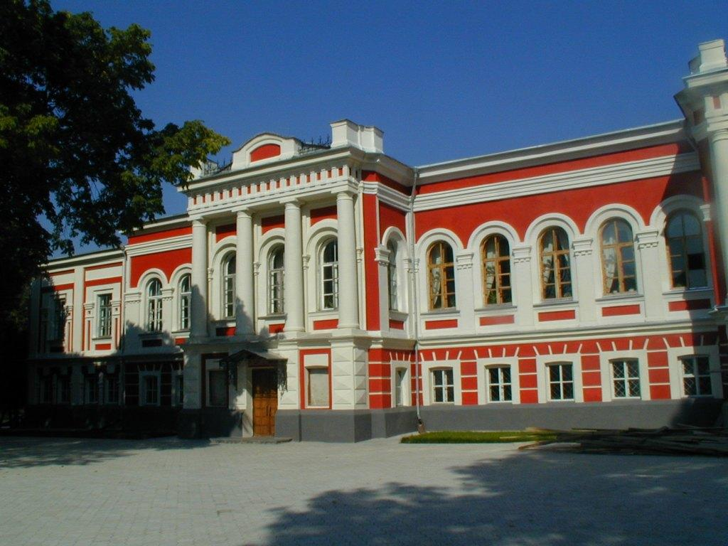 Hlukhiv National Pedagogical University